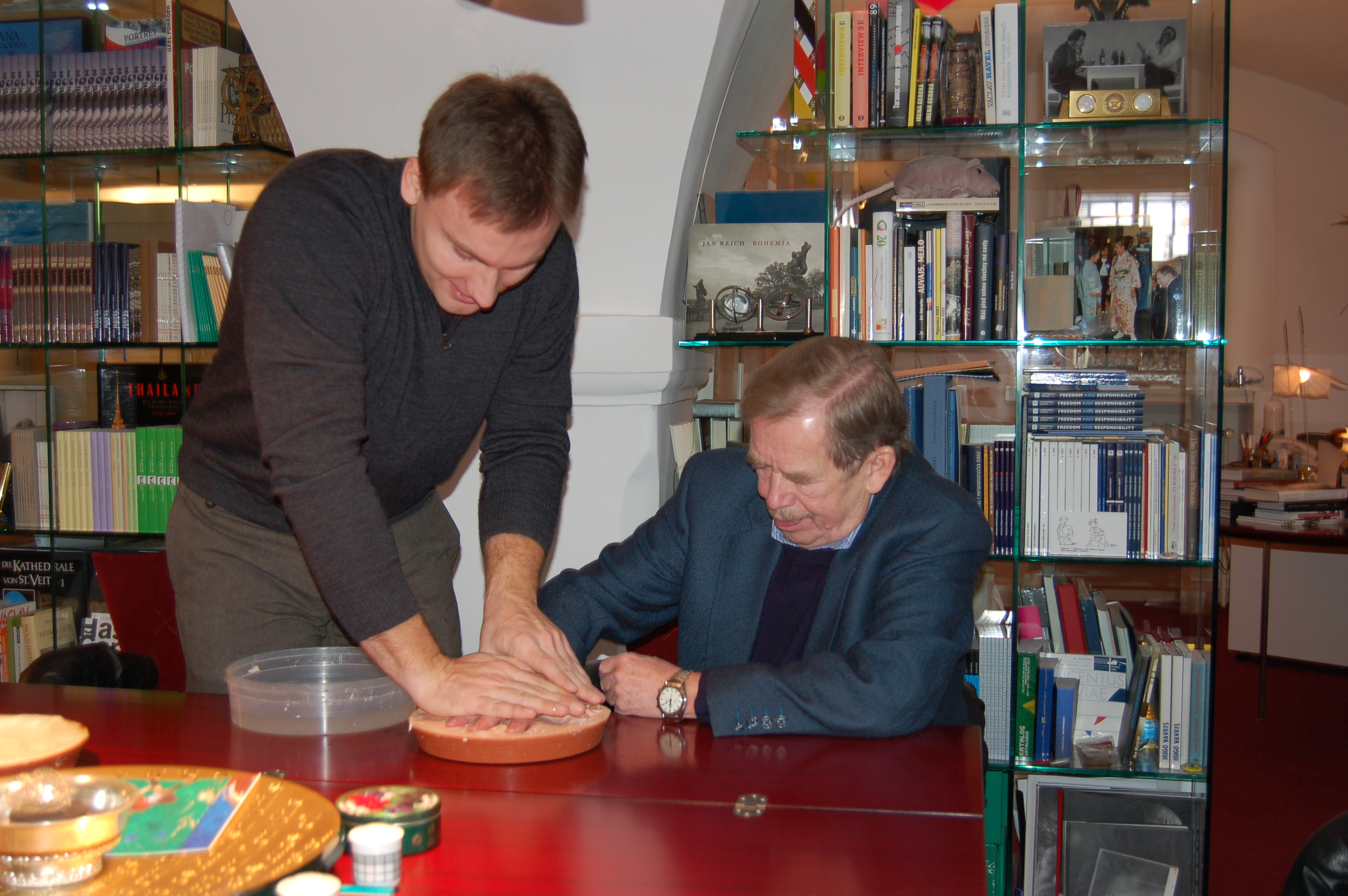 Taking hand print of Vaclav Havel